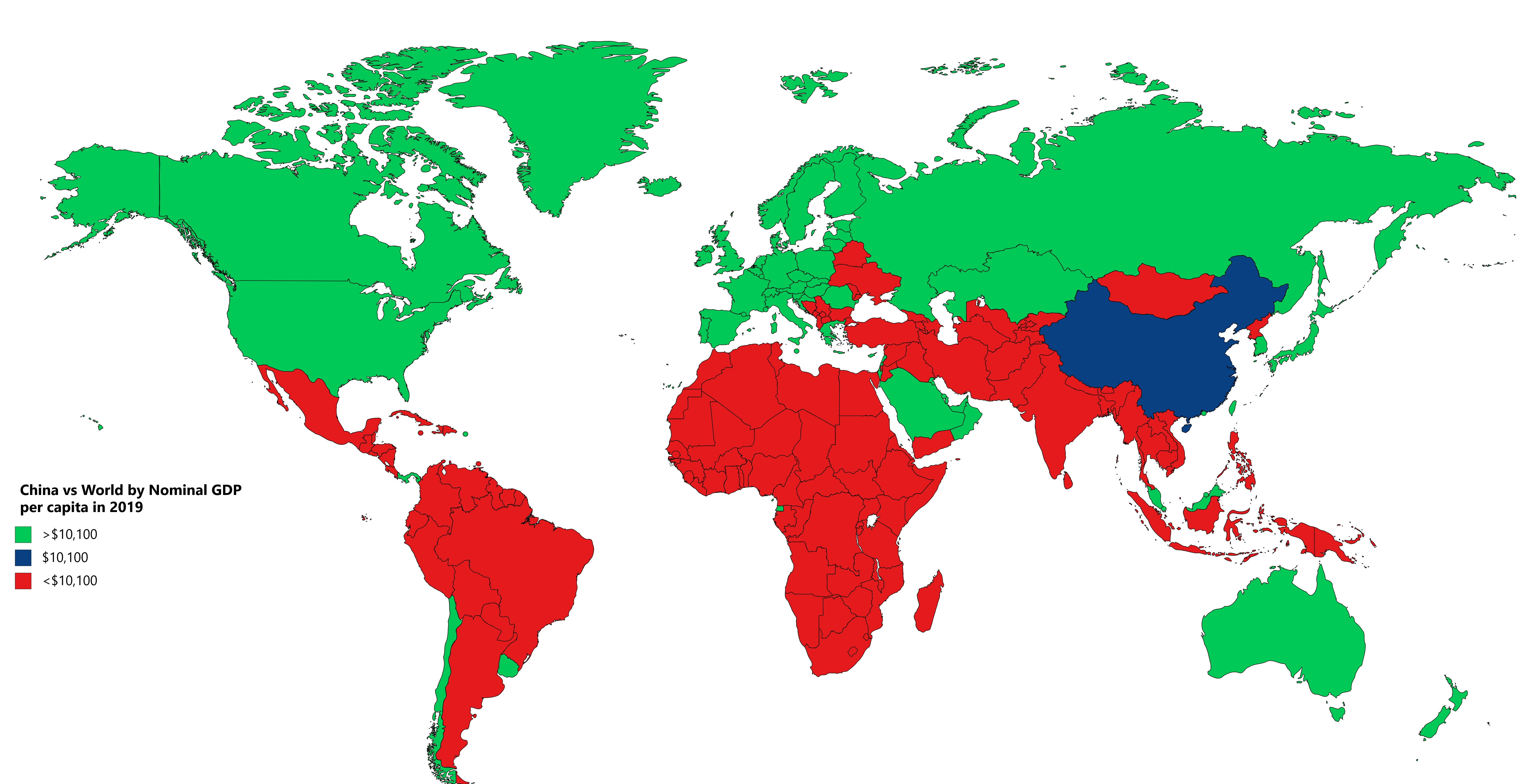 China vs World by Nominal GDP per capita in 2019 (